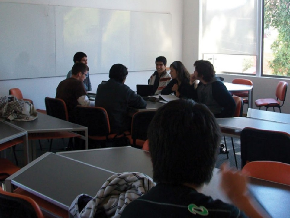 New learning spaces at Universidad de Santiago de Chile. Supported by MECESUP Program